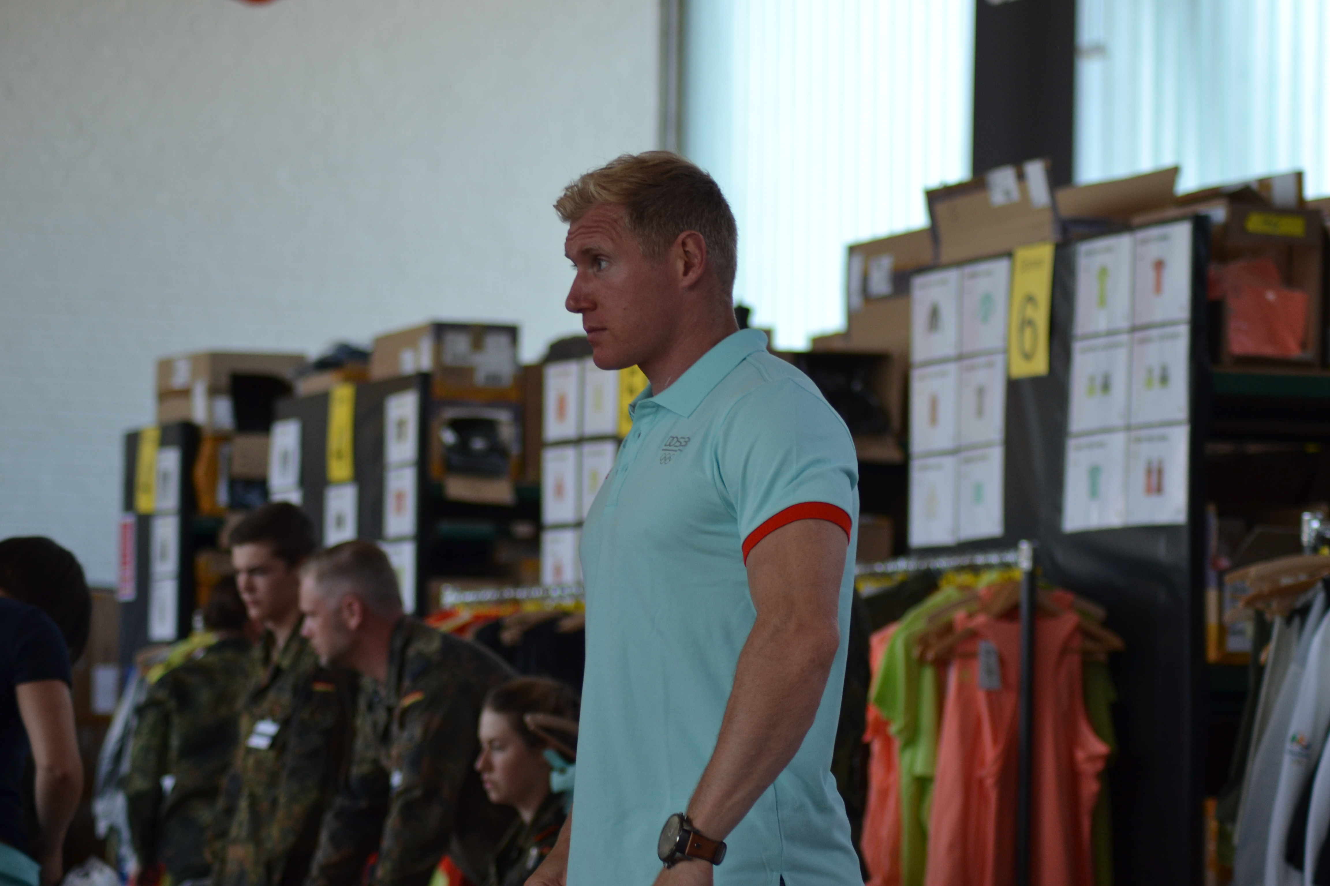 Media day of the clothing of the German Olympic team for Rio 2016 in the Emmich-Cambrai-Kaserne in Hanover. Pictured persons see Categories.